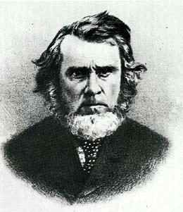 Fielden Mortimer Thorp (1822-1894), first white settler in the Kittitas Valley.